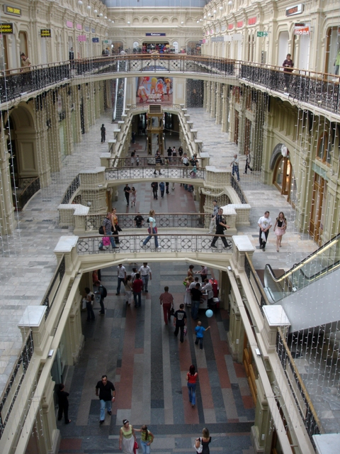 Family picture taken during recent trip to Russia